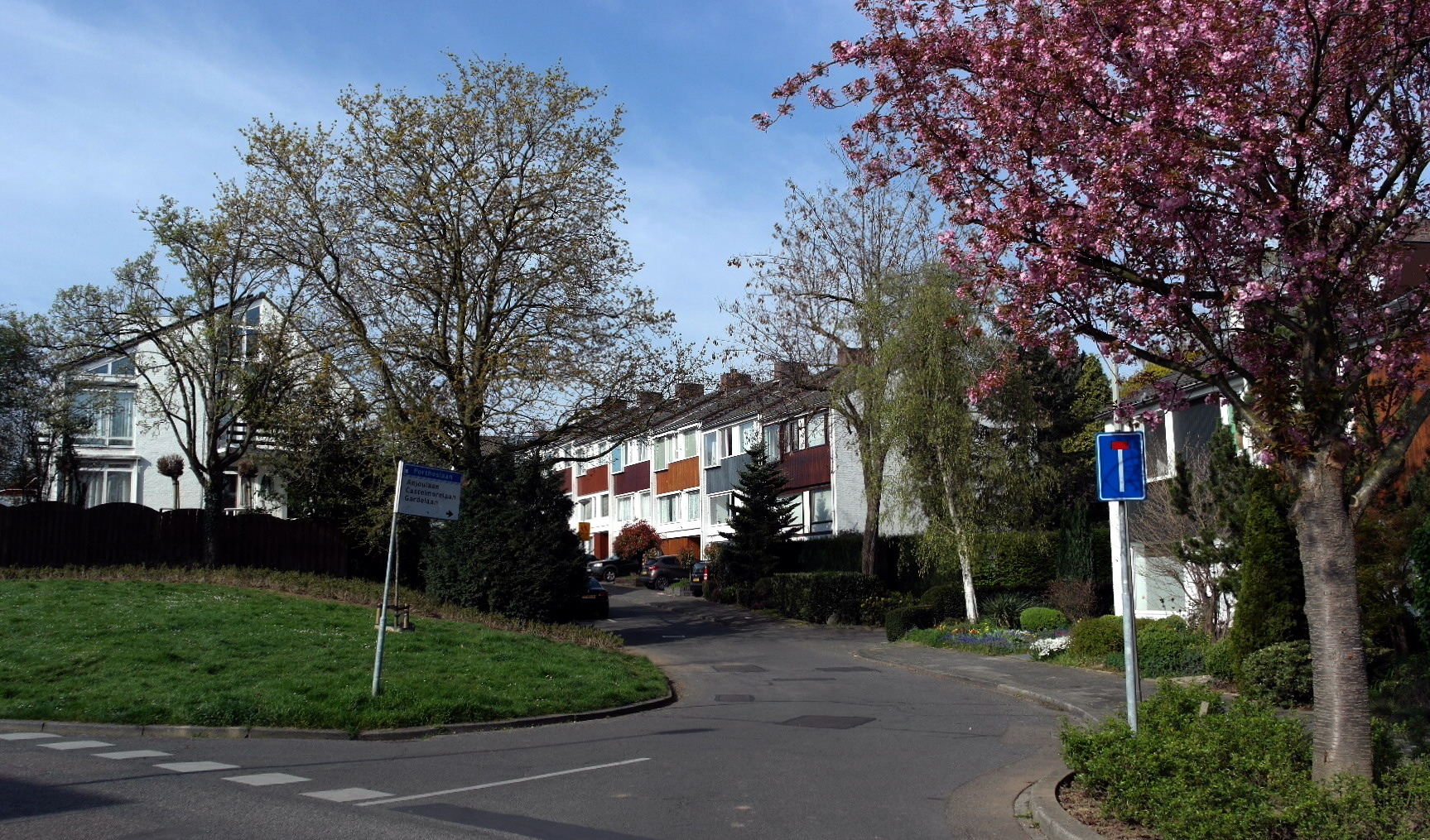 Maastricht, the Netherlands. View of residential street (Porthoslaan) in Biesland.